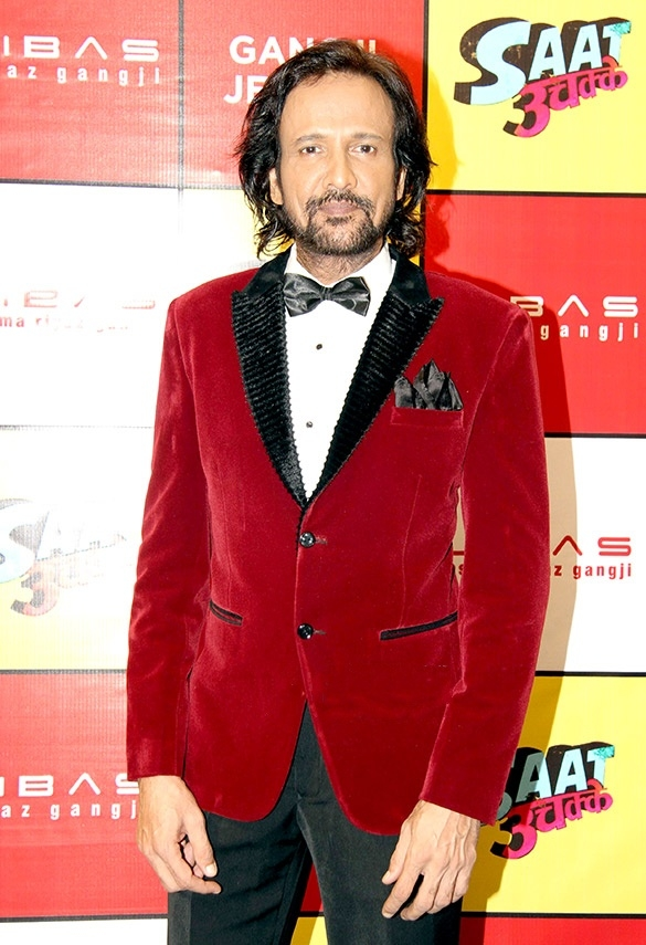 Kay Kay Menon t libas store